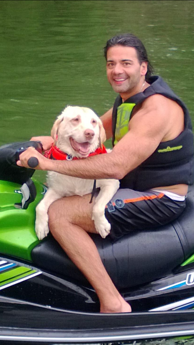 A Labrador Retriever shown with his owner on a PWC